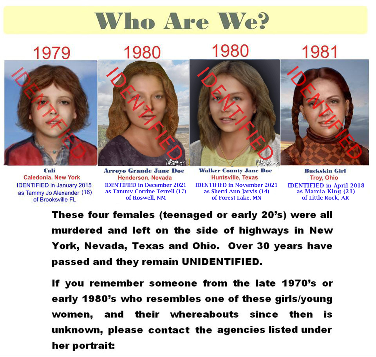 Poster - Cali, Arroyo Grande, Walker County Jane Doe, and Buckskin Girl